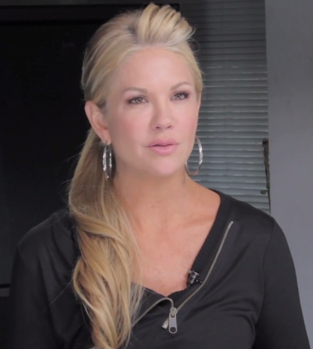 Entertainment Tonight host Nancy O'Dell chatting with Olive Coco TV.